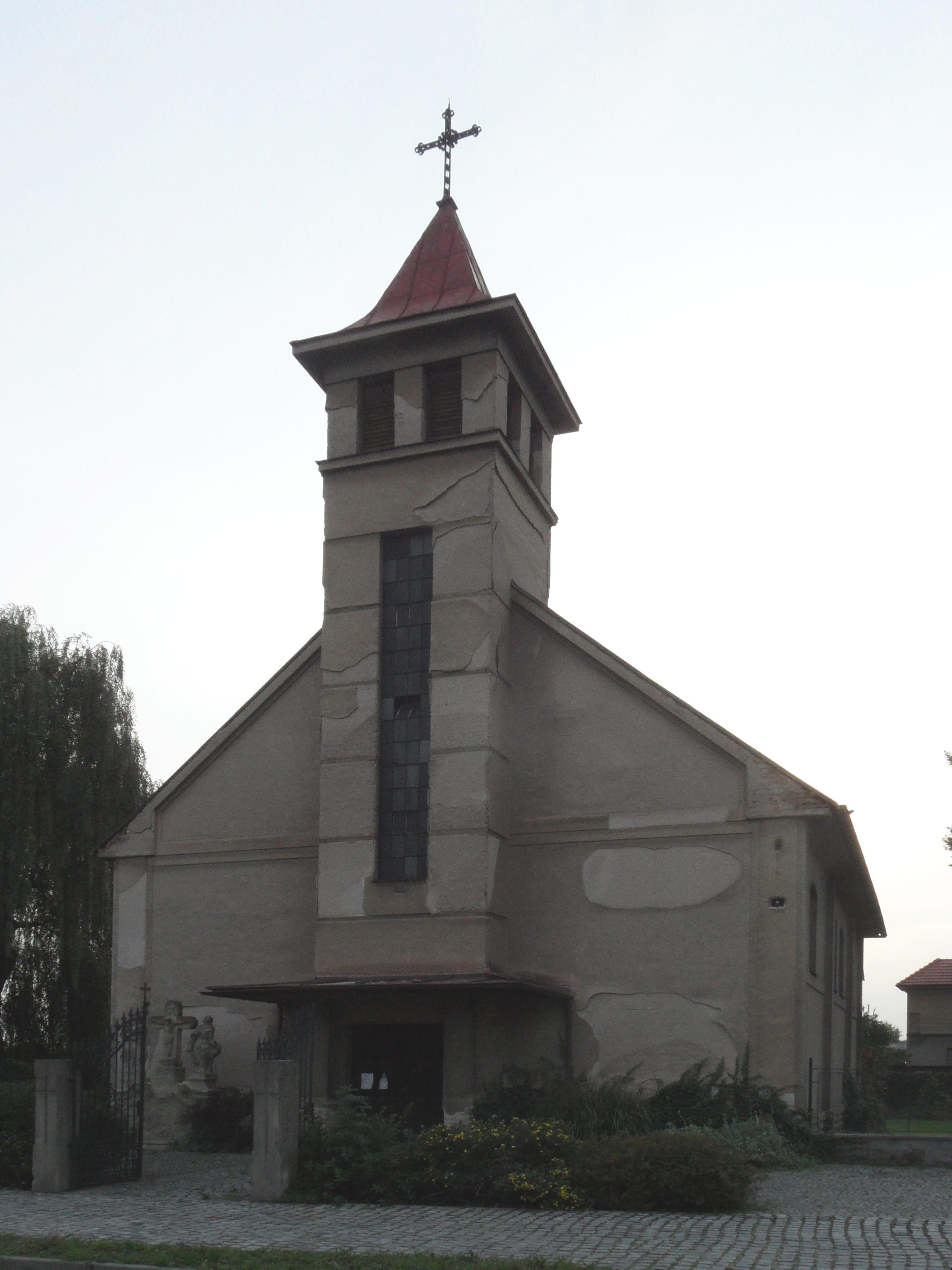 Velký Osek A. Church, Kolín District, the Czech Republic.